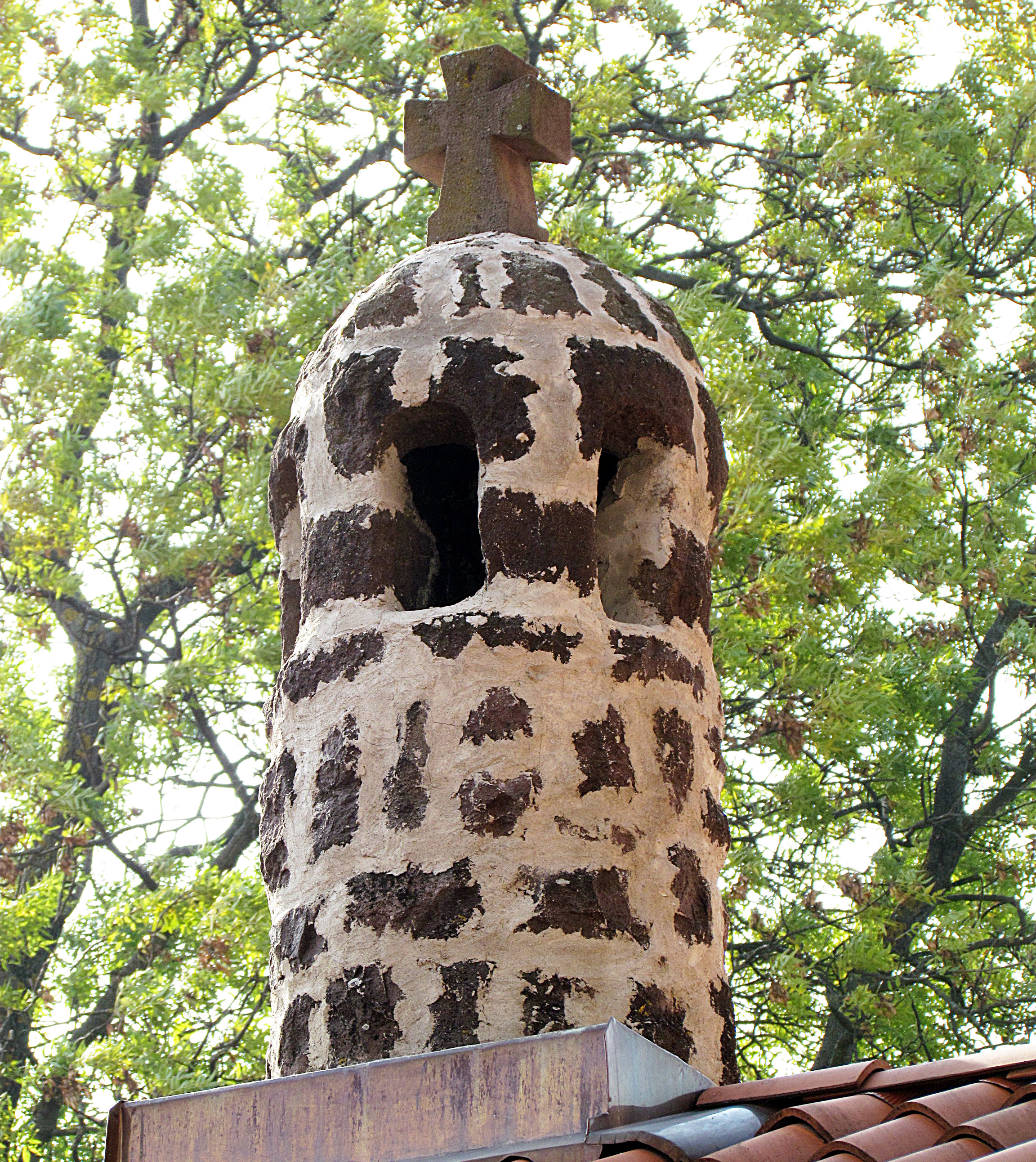 Chimney in Žiča monastery, Serbia